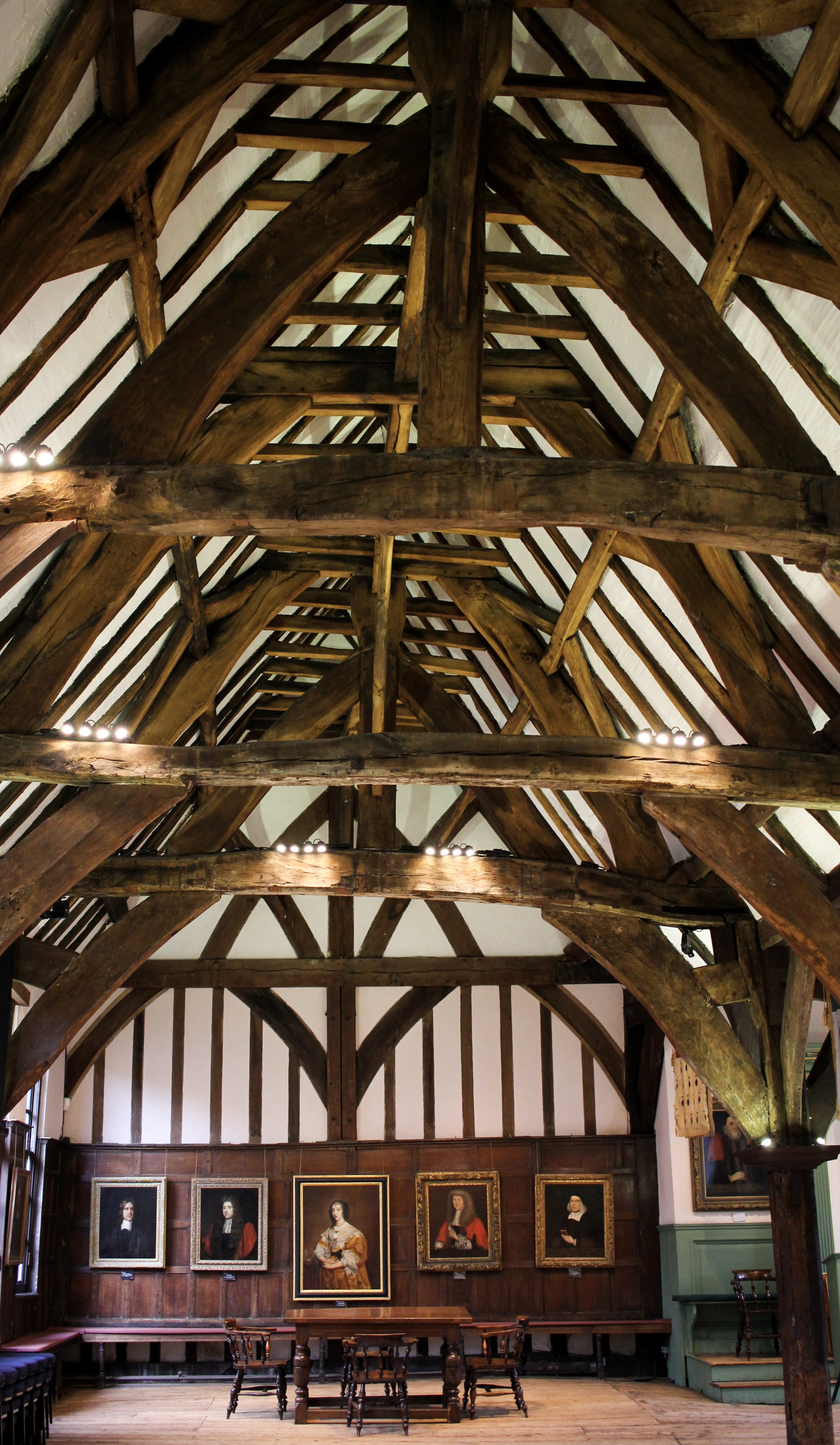 Merchant Adventurers’ Hall timber frame From inside the great hall